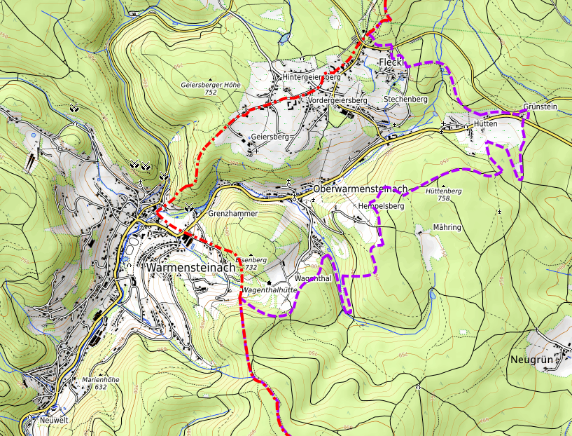 The former border between the Principality of Bayreuth and the Electorate of Bavaria in today's Warmensteinach